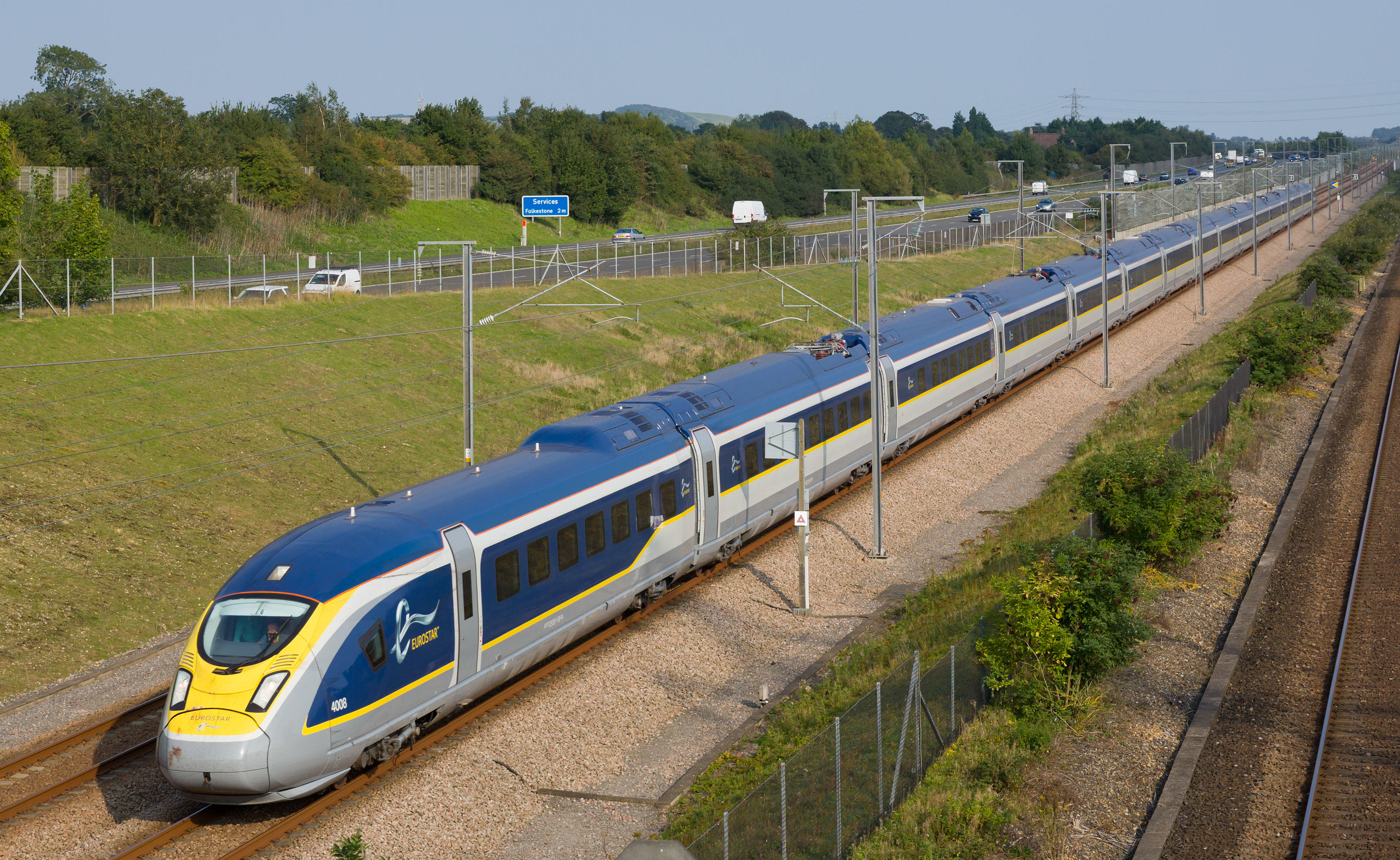 New Eurostar class 374 trainset formed of units 4008/4007, based on the Siemens Velaro series, on HS1, near Sellindge, UK